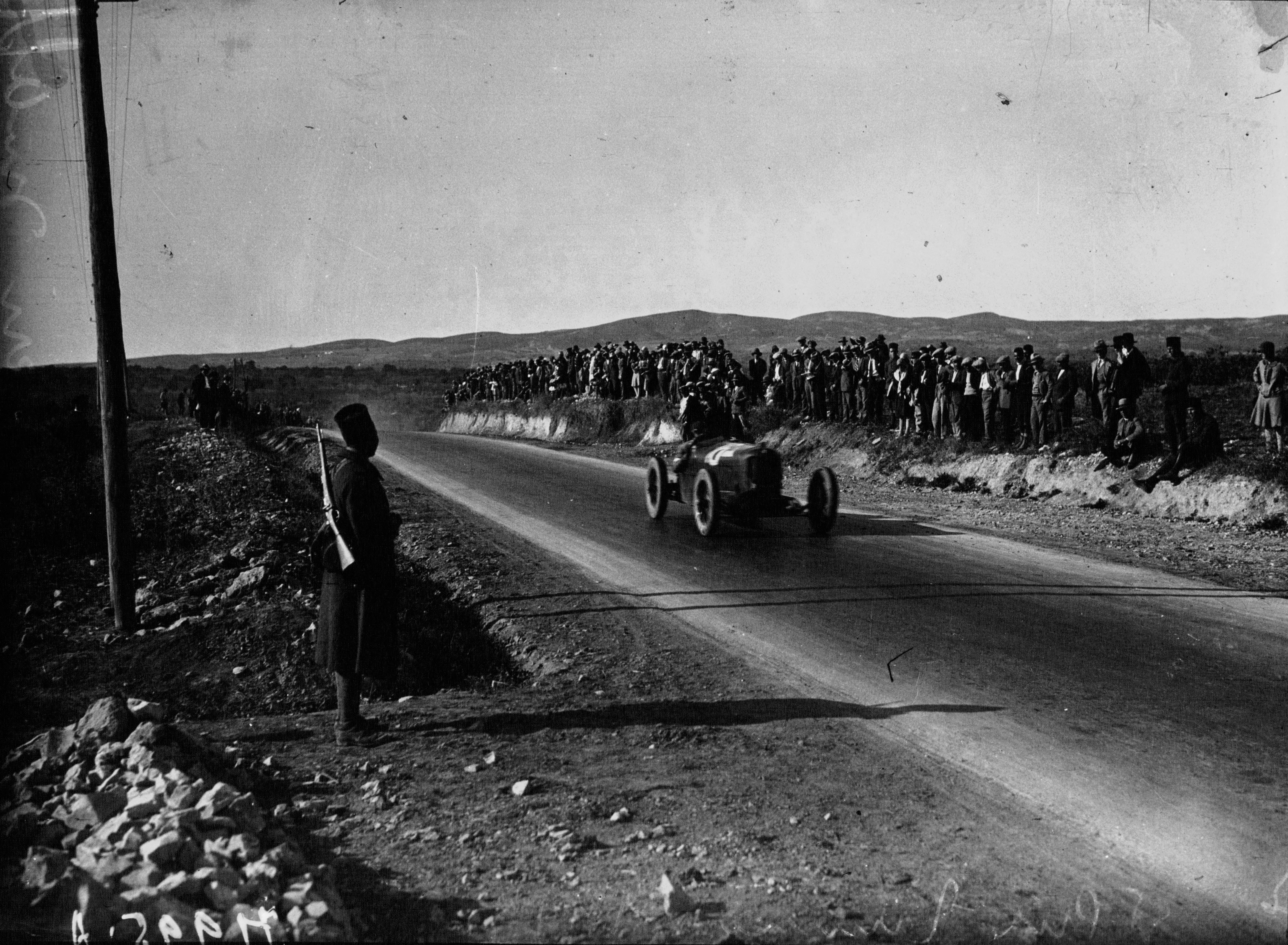 Gastone Brilli-Peri at the 1929 Tunis Grand Prix